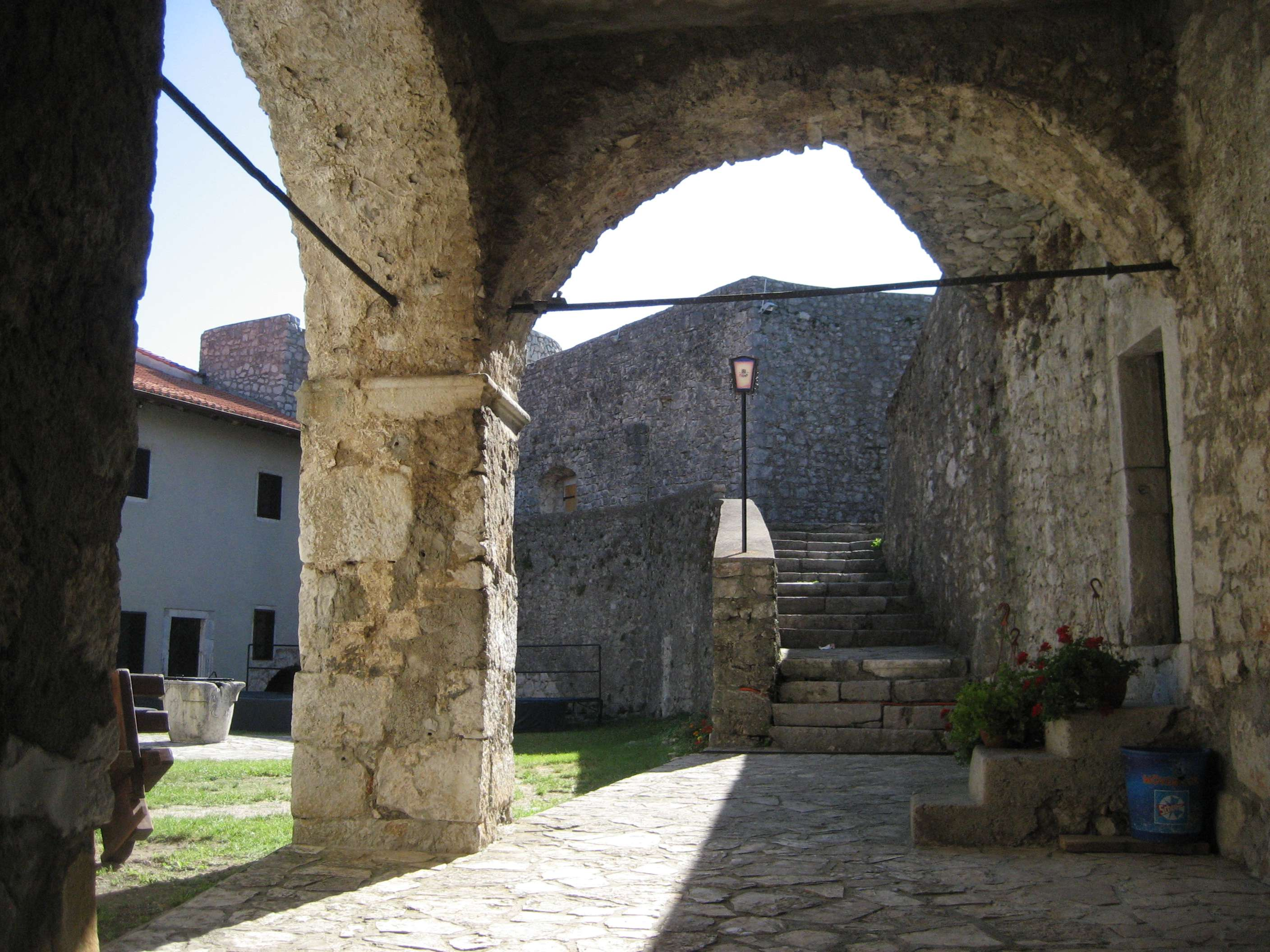 Castle Grobnik, Croatia